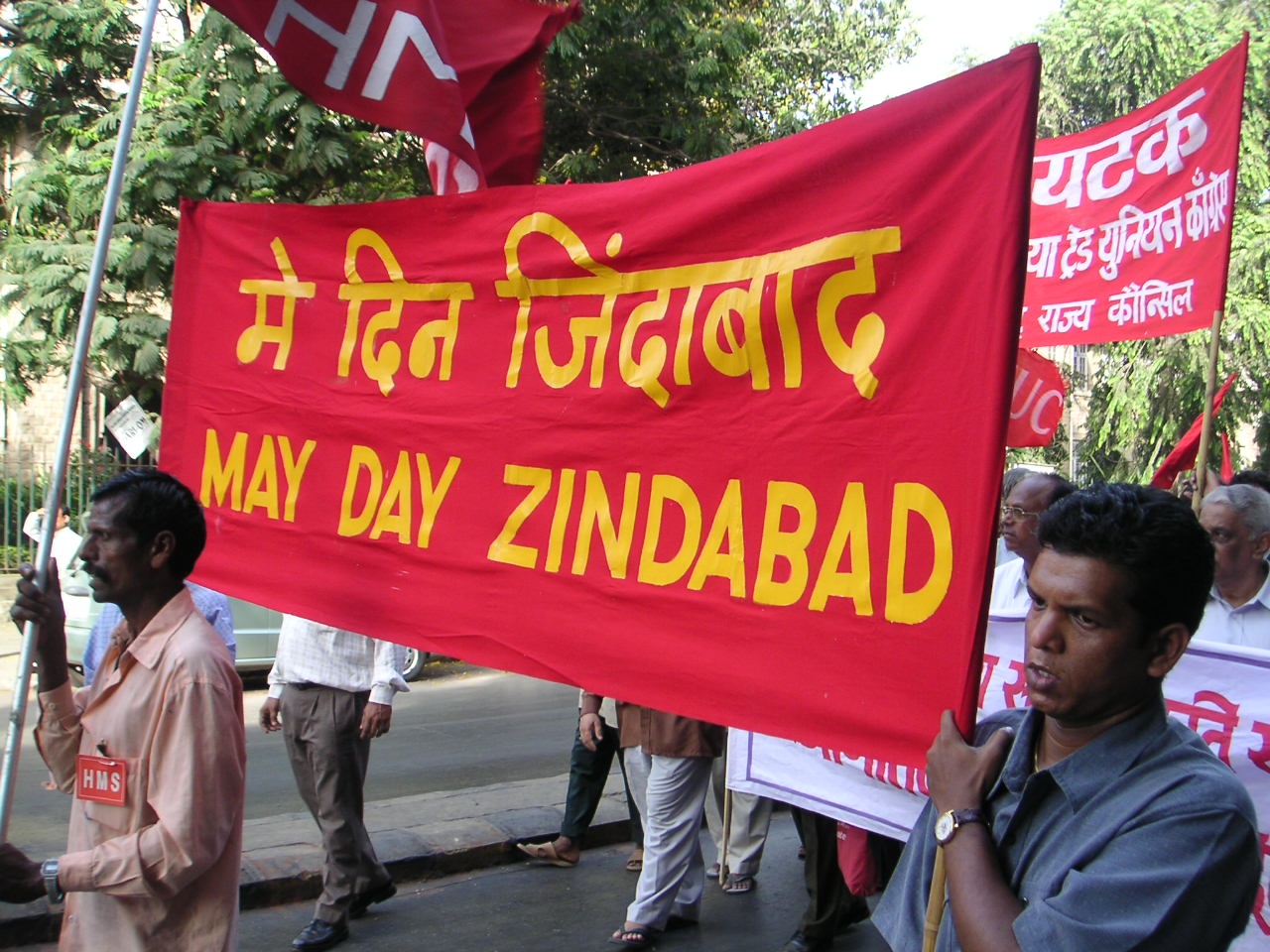 May Day rally in Mumbai. Photo: Soman